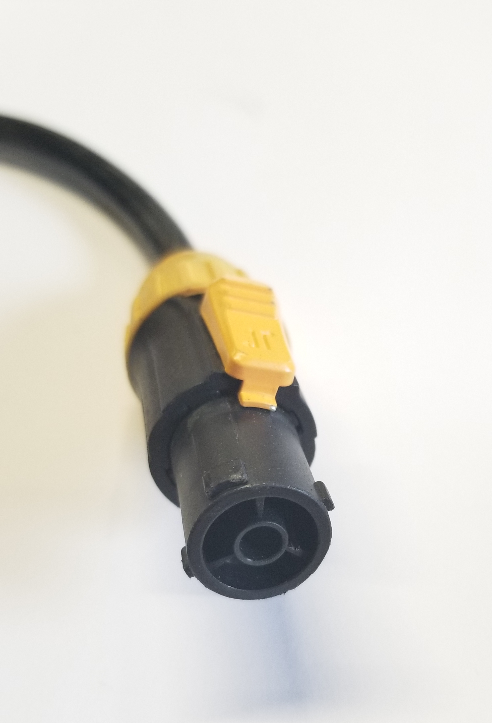 Neutrik PowerCON True cable connector (male).